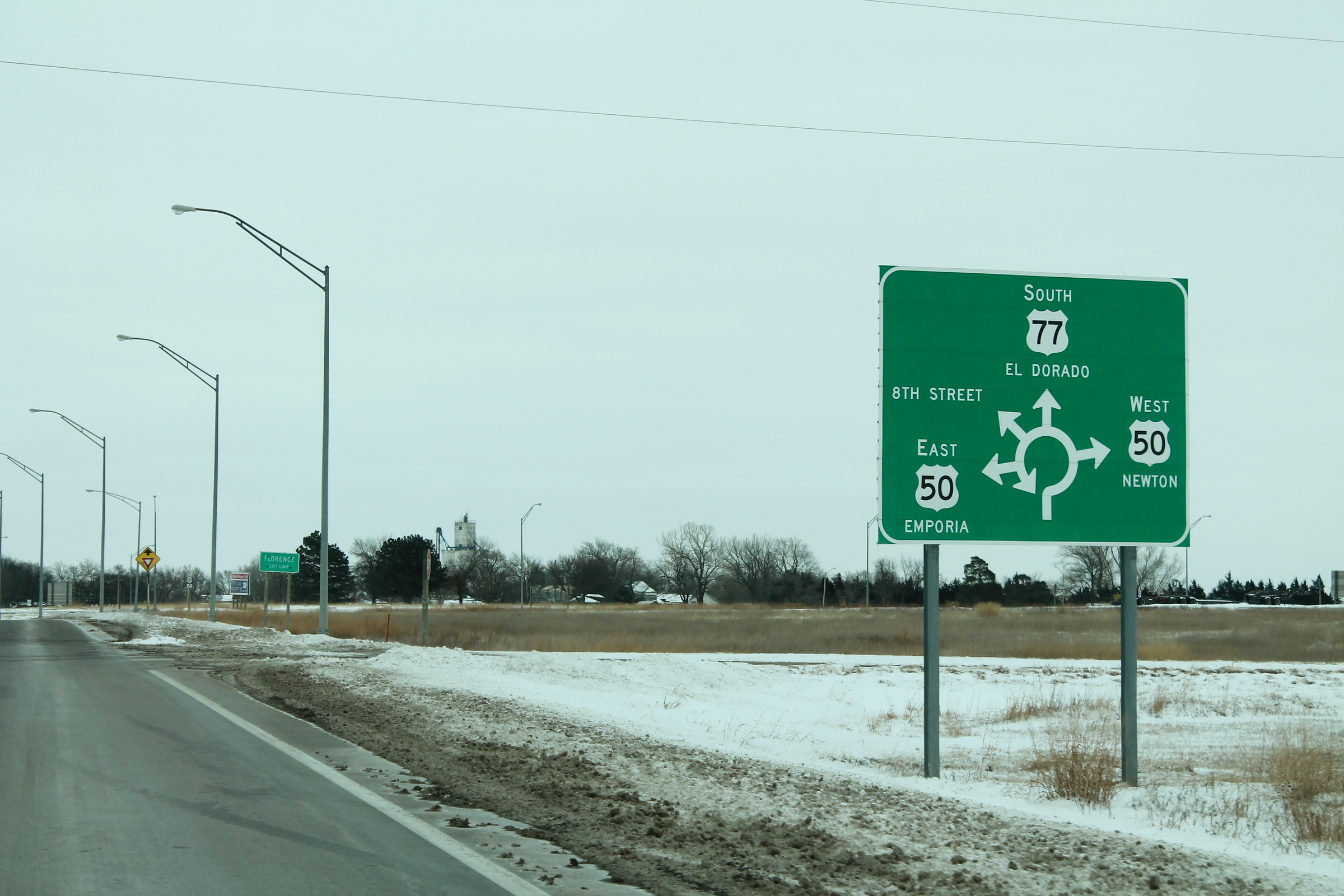 US77sRoad-US50ewRoundabountSign